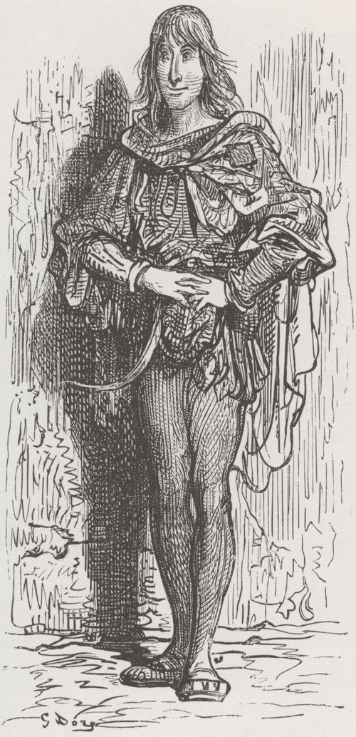 Panurge (by Gustave Doré)